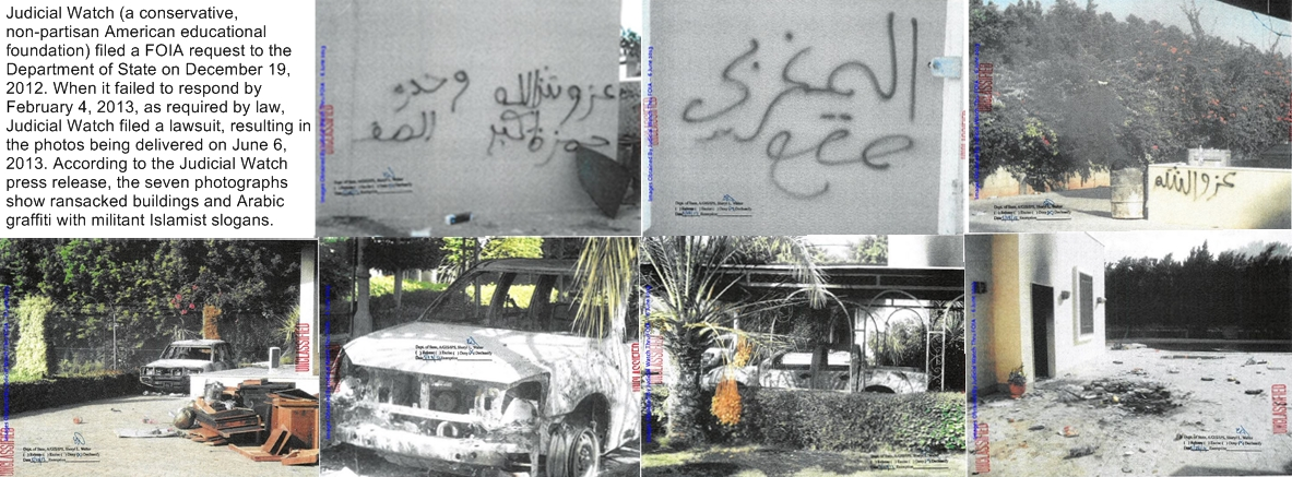 Montage of seven photographs released under a FOIA request to Judicial Watch from the Department of State. Other information The 7 photographs in this montage were released to Judicial Watch by the U.S. Department of State.